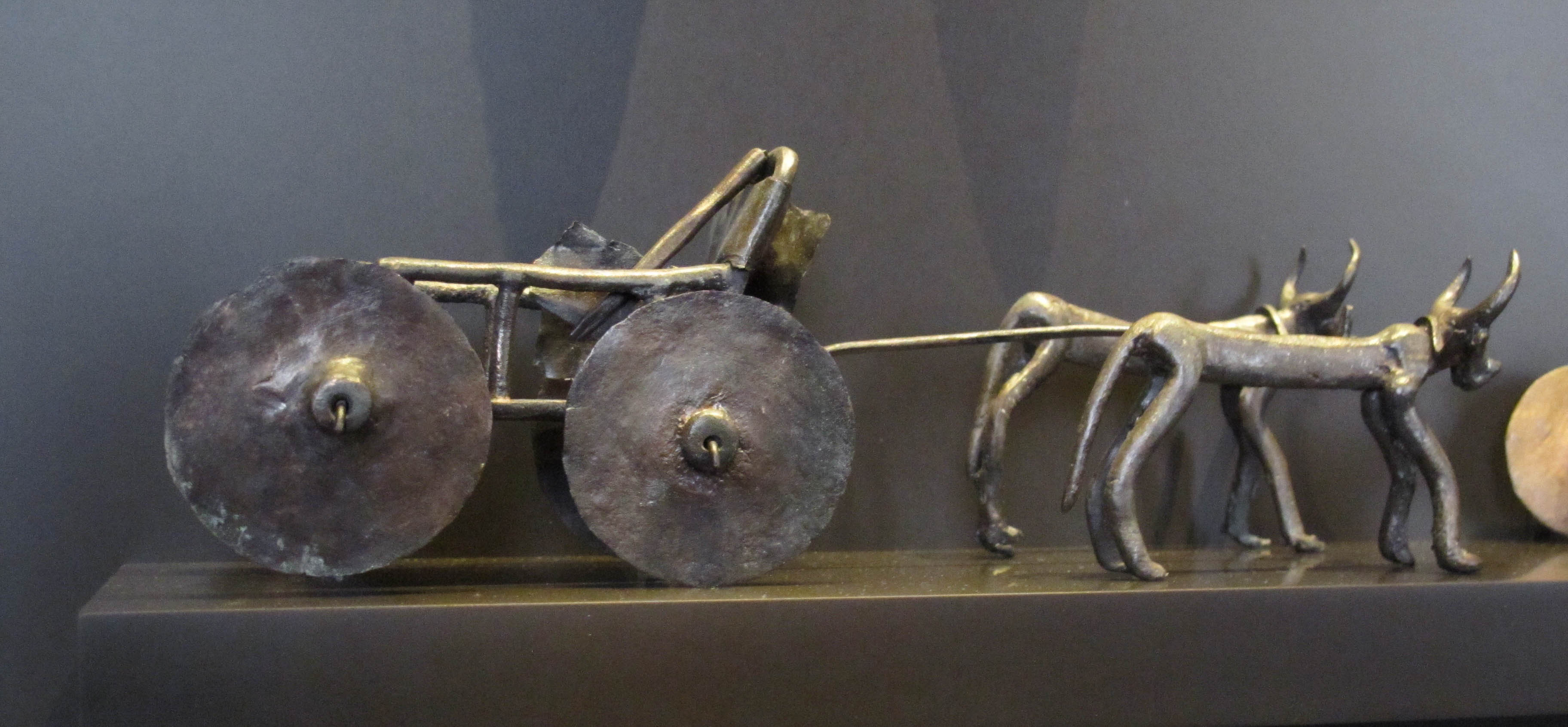 Model of wagon. Copper (tracks of silver). Copper Age, 4500 - 2200 BC. Center-South of the Anatolia (Turkey).